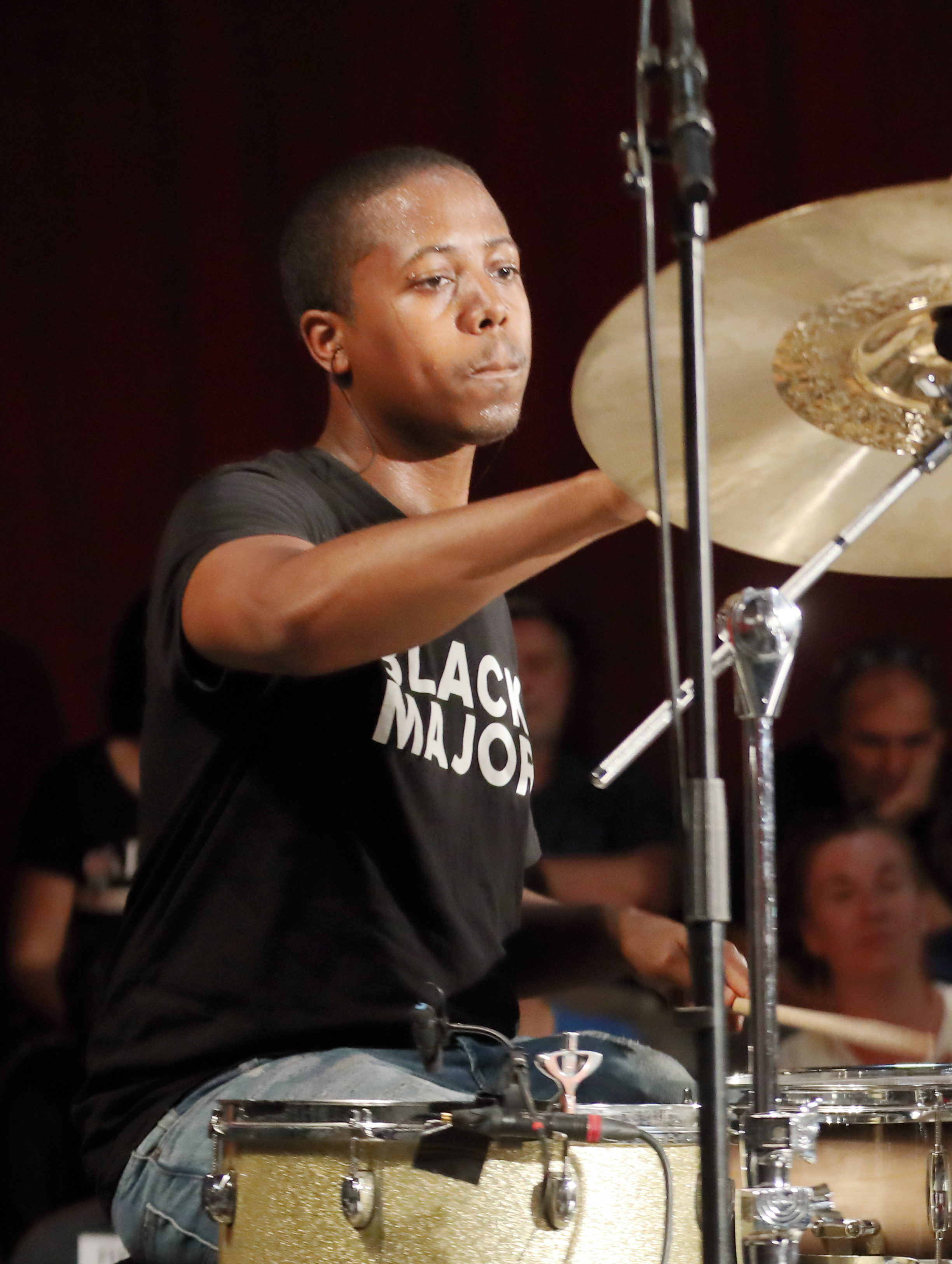 Theon Cross with Chelsea Carmichael and Moses Boyd at INNtöne Jazzfestival 2019.